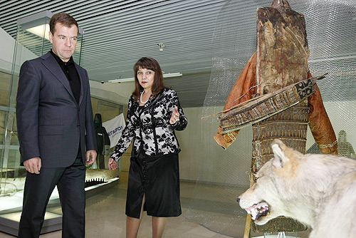 ANADYR, CHUKOTKA. At the Chukotka Heritage Museum.